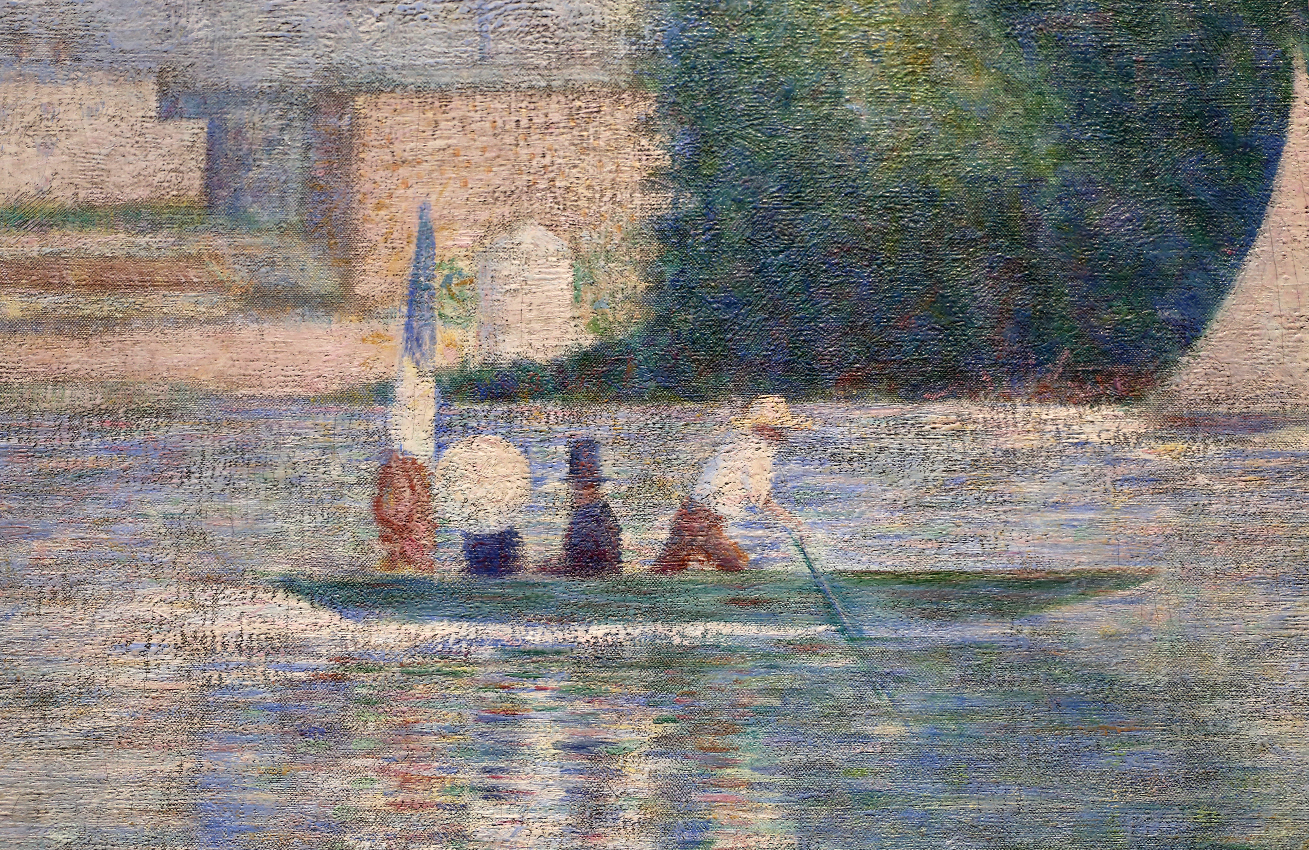 Une baignade à Asnières